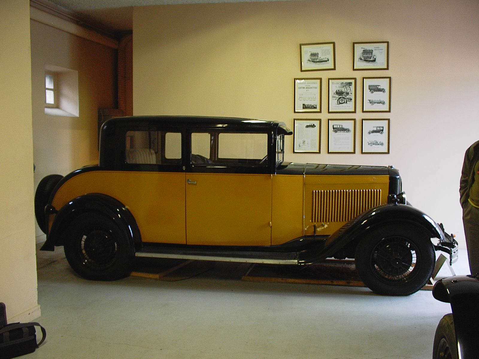 A Cotttin & Desgouttes "Sans-Secousses" - side view